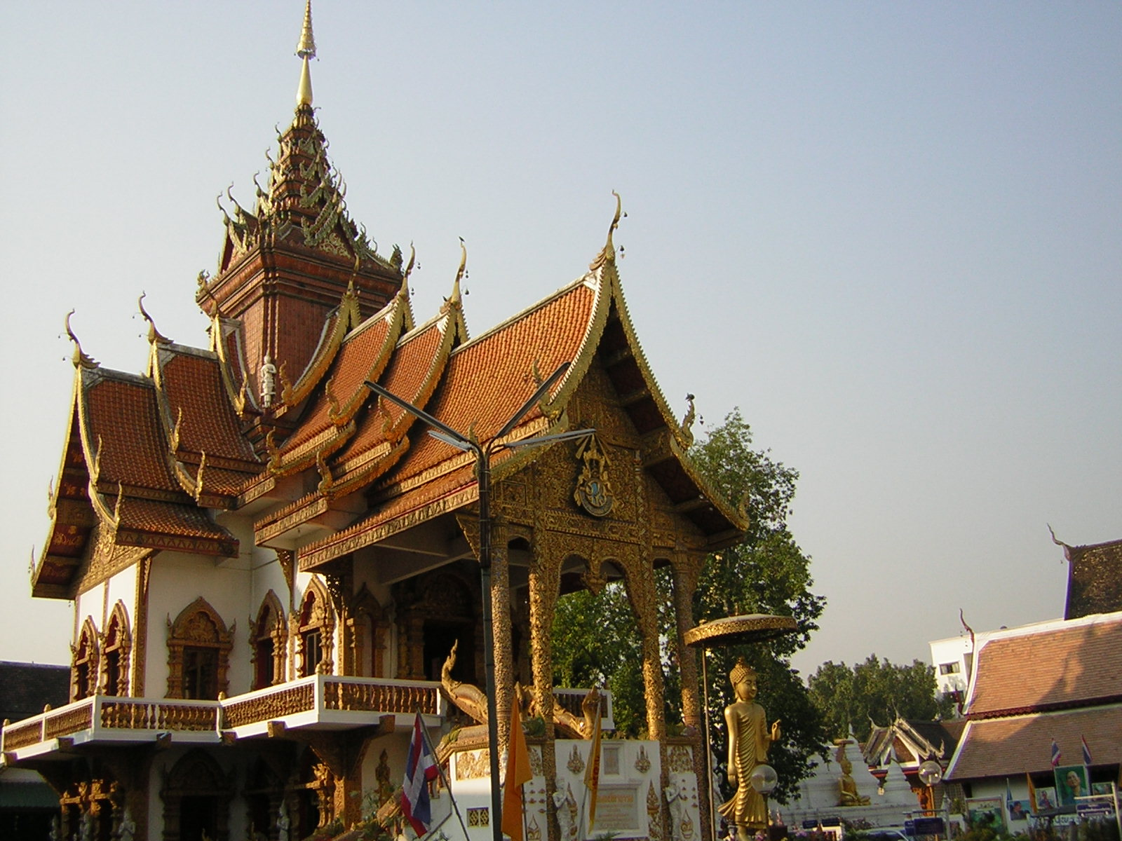 Hor Monthian Tham (Dhamma-Hall) of the Wat Buppharam in Chiang Mai, Thailand.